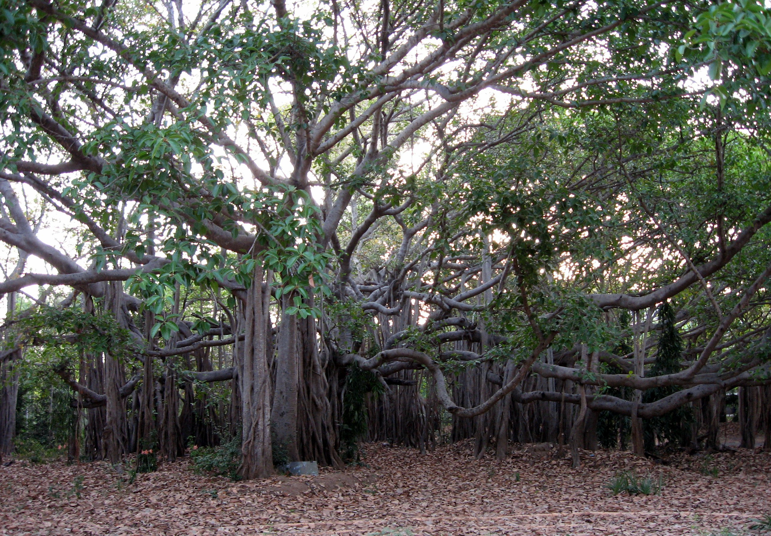 Banyan tree in front of Building Sciences Block (BSB) in IIT Madras, Chennai